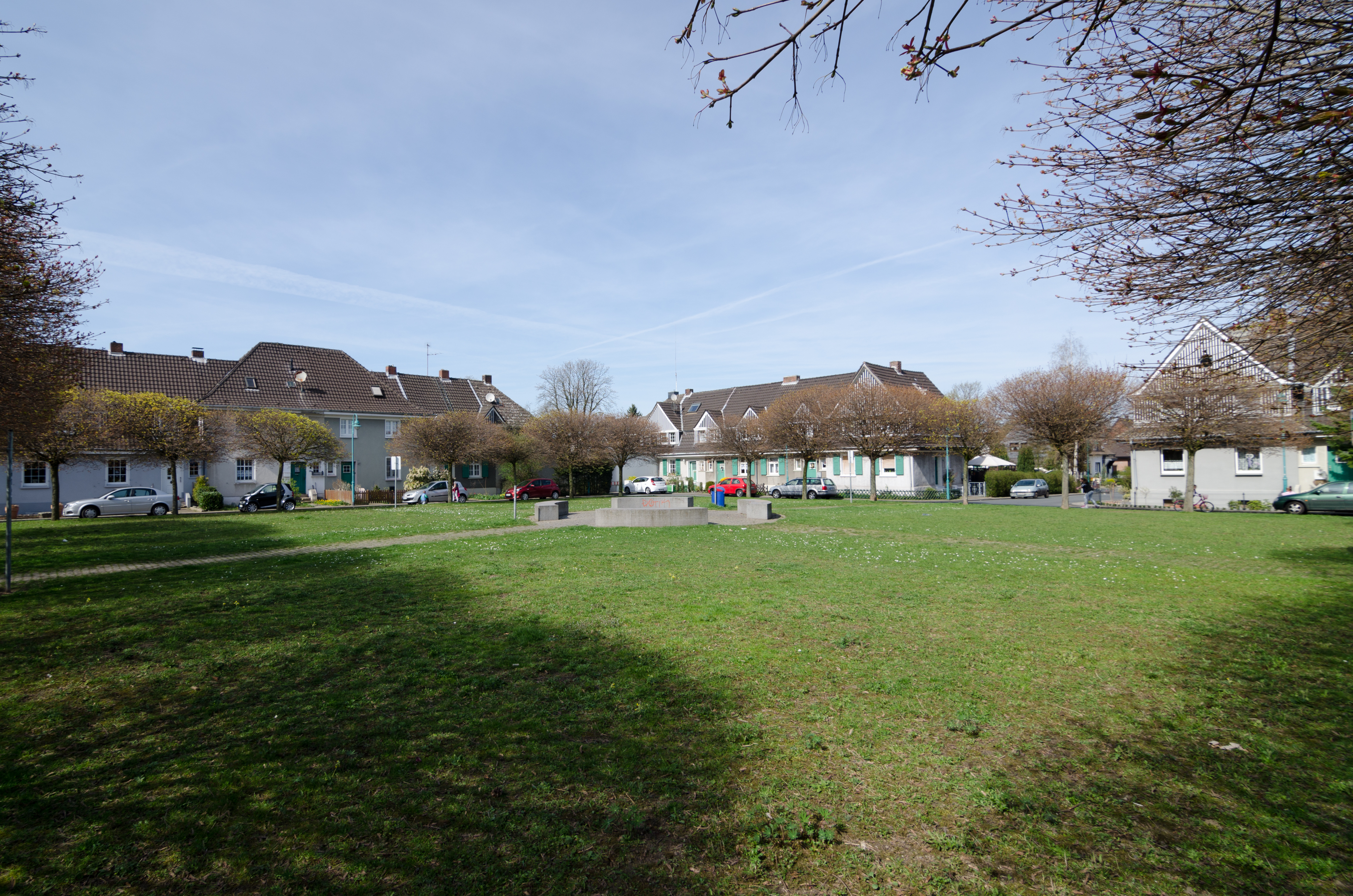 Duisburg (North Rhine-Westphalia, Germany) – borough Homberg/Ruhrort/Baerl, district Alt-Homberg – Johannenhof Colony